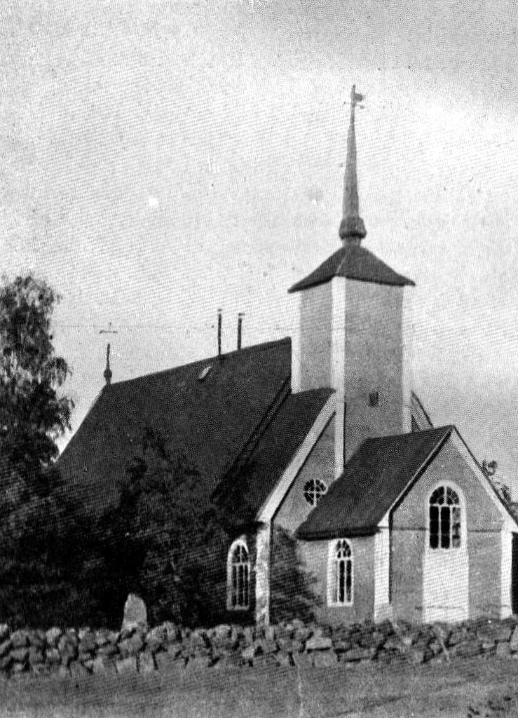 Hailuoto Old Church in Hailuoto, Finland. The wooden church was built between 1610–1620. It was destroyed by fire on 2 August 1968.